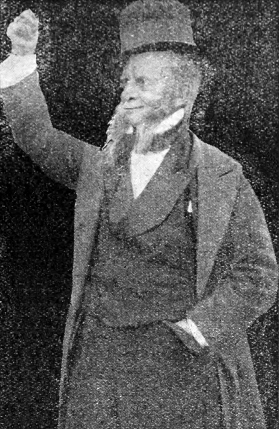 Photograph of Sir John Hare as Eccles in the 1915 film Caste